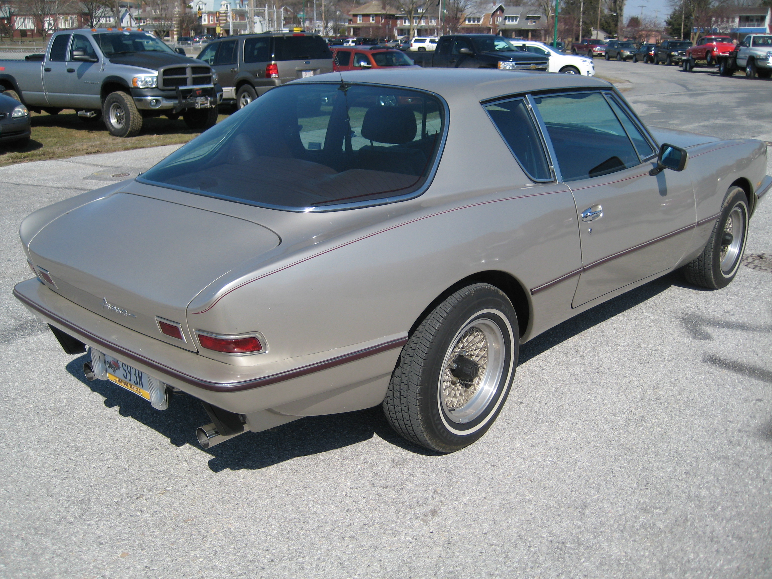 Seen at the late winter meet of the Keystone Region of the Studebaker Drivers Club, March 3-4-5, 2011 at the York Fairgrounds in Pennsylvania. Over 200 more pictures in my STUDEBAKER(set) at the right